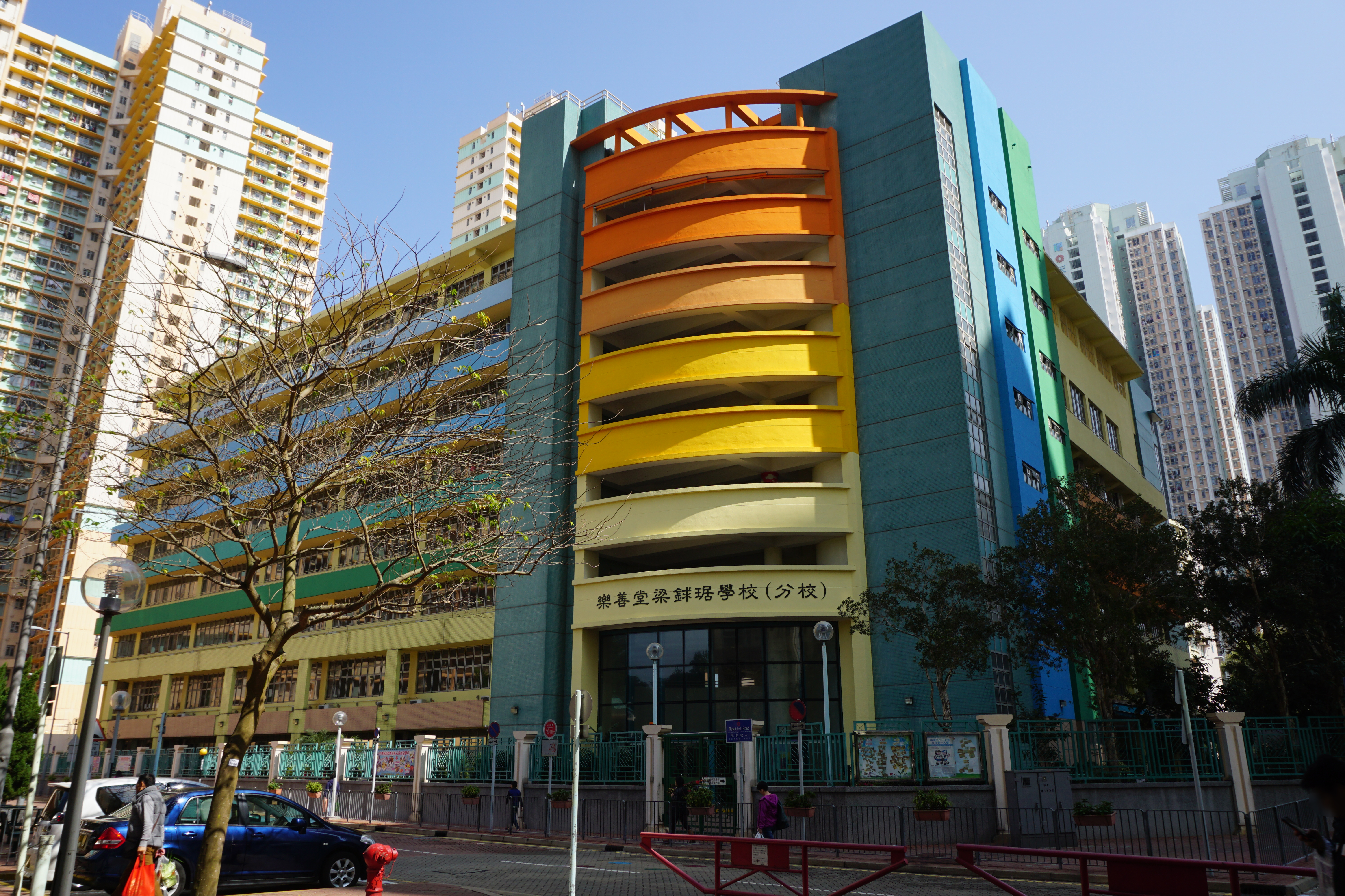 Lok Sin Tong Leung Kau Kui Primary School (Branch) in Tin Shui Wai, Hong Kong.